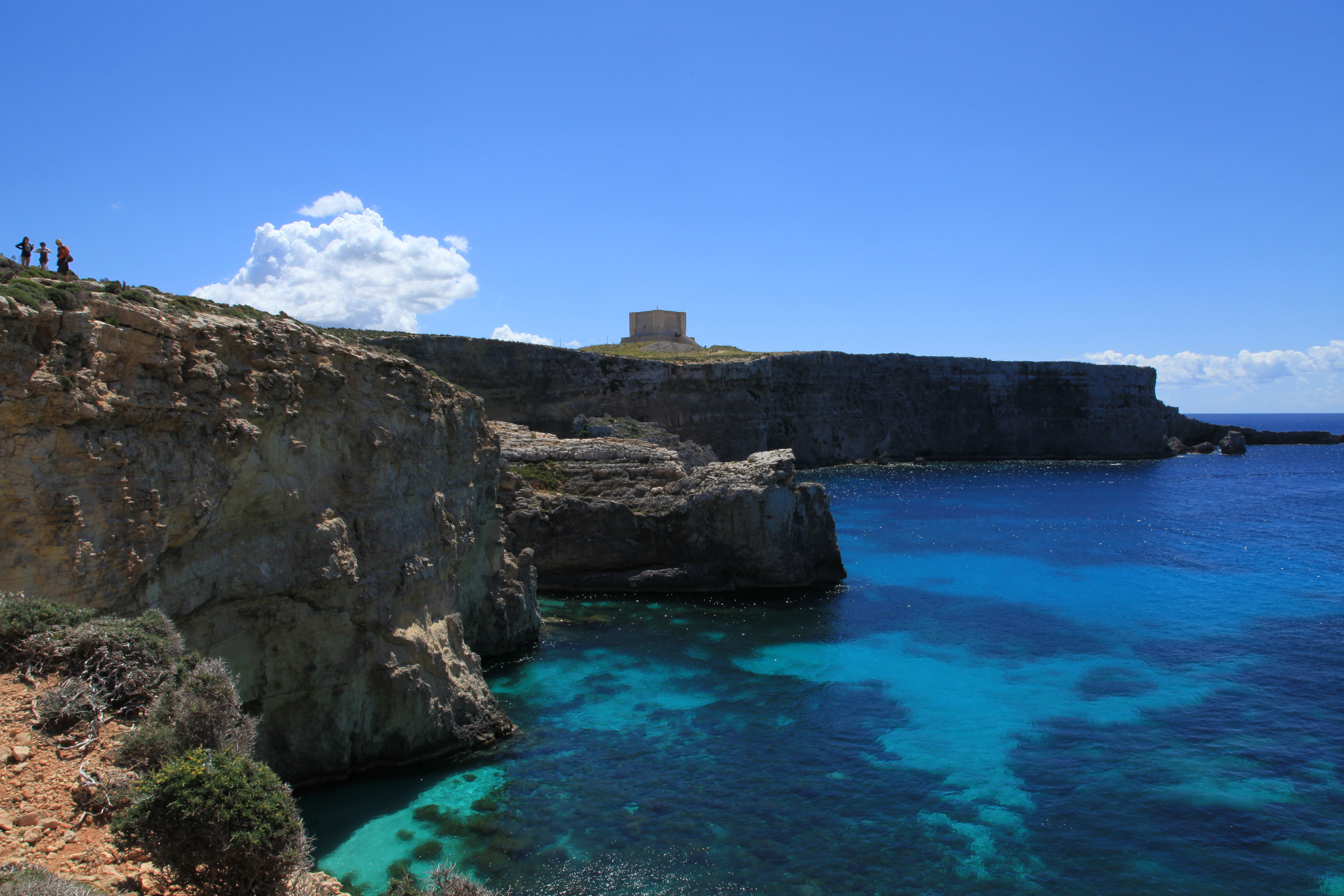 Blue Lagoon and St. Mary's Tower on Comino in Għajnsielem, Malta